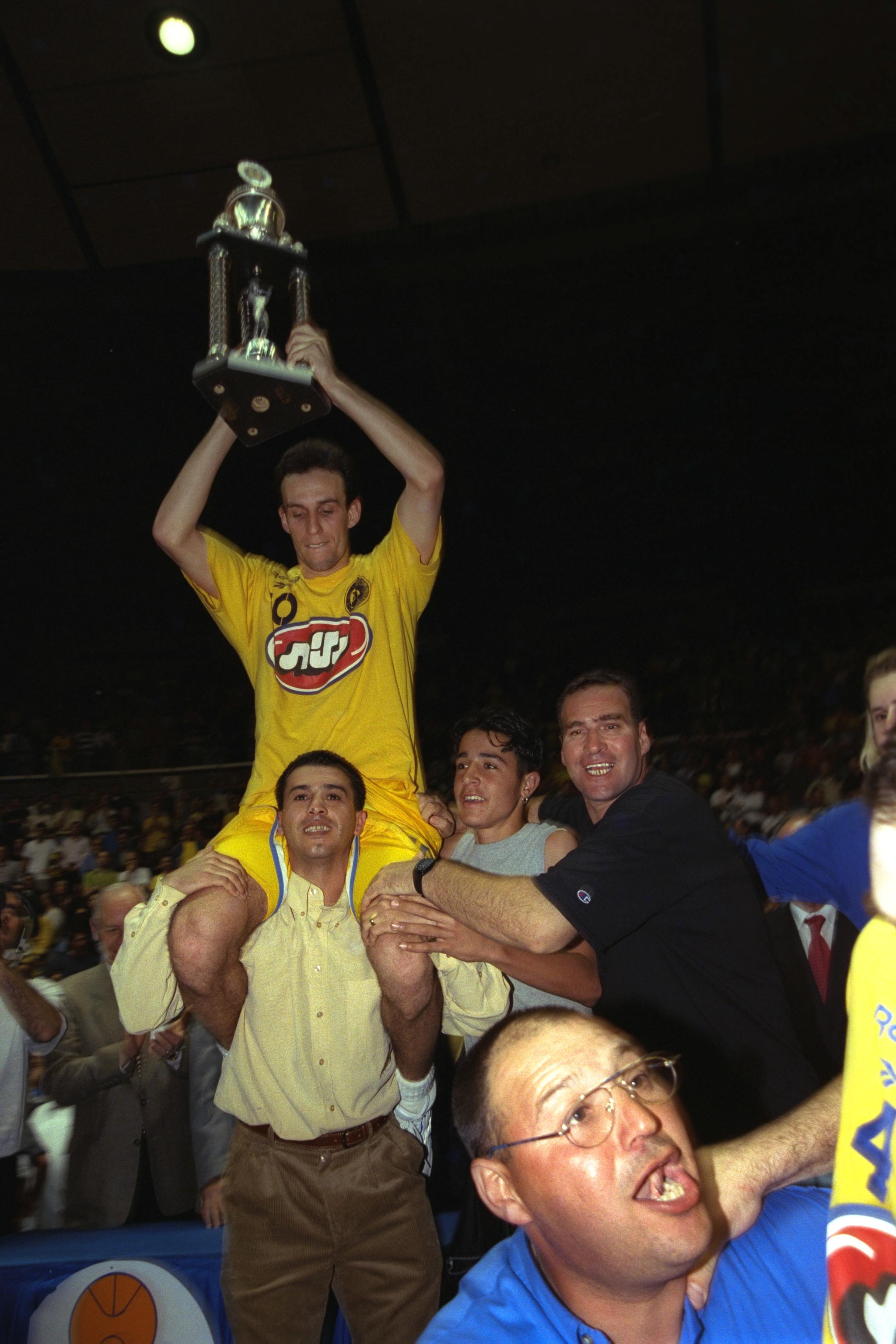 Maccabi Tel Aviv basketball player Oded Kattash is carried by fans after his team’s victory over Hapoel Jerusalem in the state cup finals, held at Yad Eliyahu. שחקן מכבי תל אביב , עודד קטש, נישא על ידי מעריצים לאחר ניצחון על קבוצת הפועל ירושלים בגמר הגביע